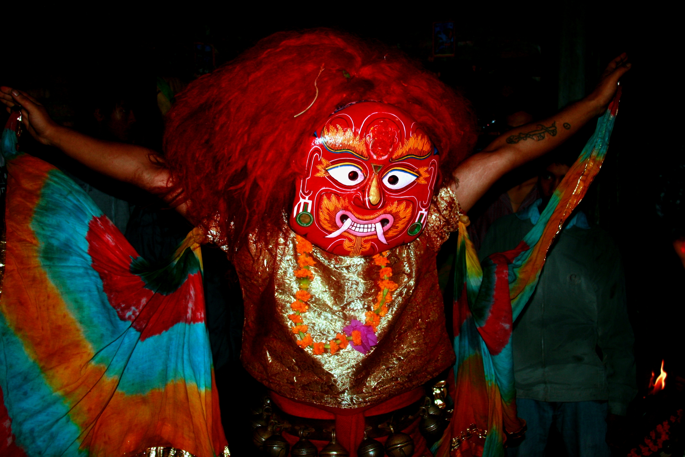 Nepalese Lakhe (demon) dancer.